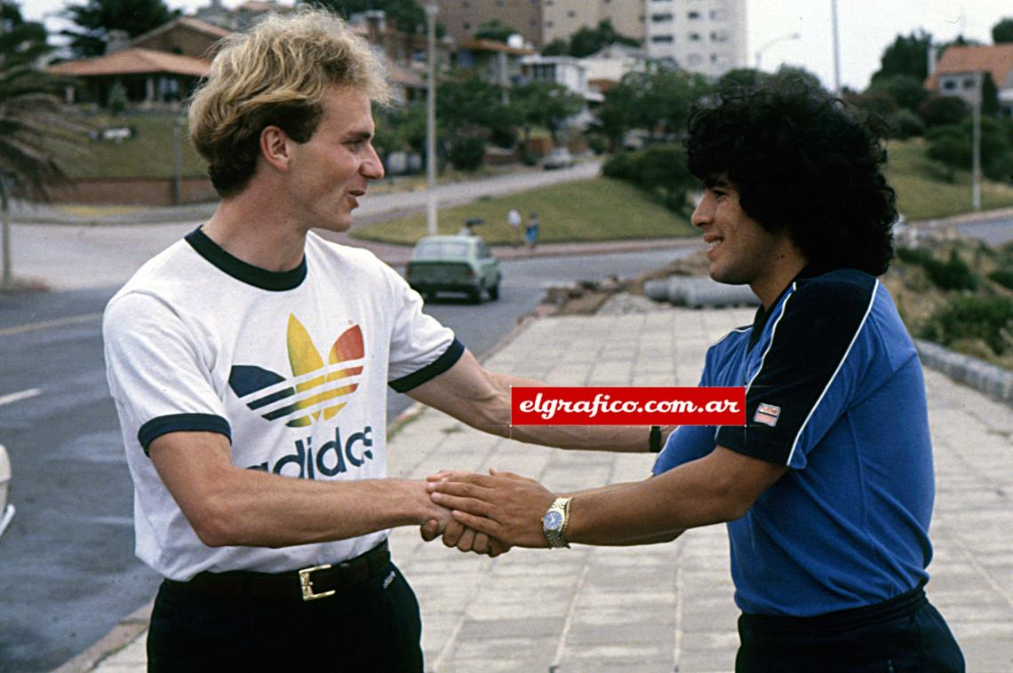 Karl-Heinz Rummenigge (left) and Diego Maradona greeting in Montevideo. In background is a green car which can be identified as Škoda 120